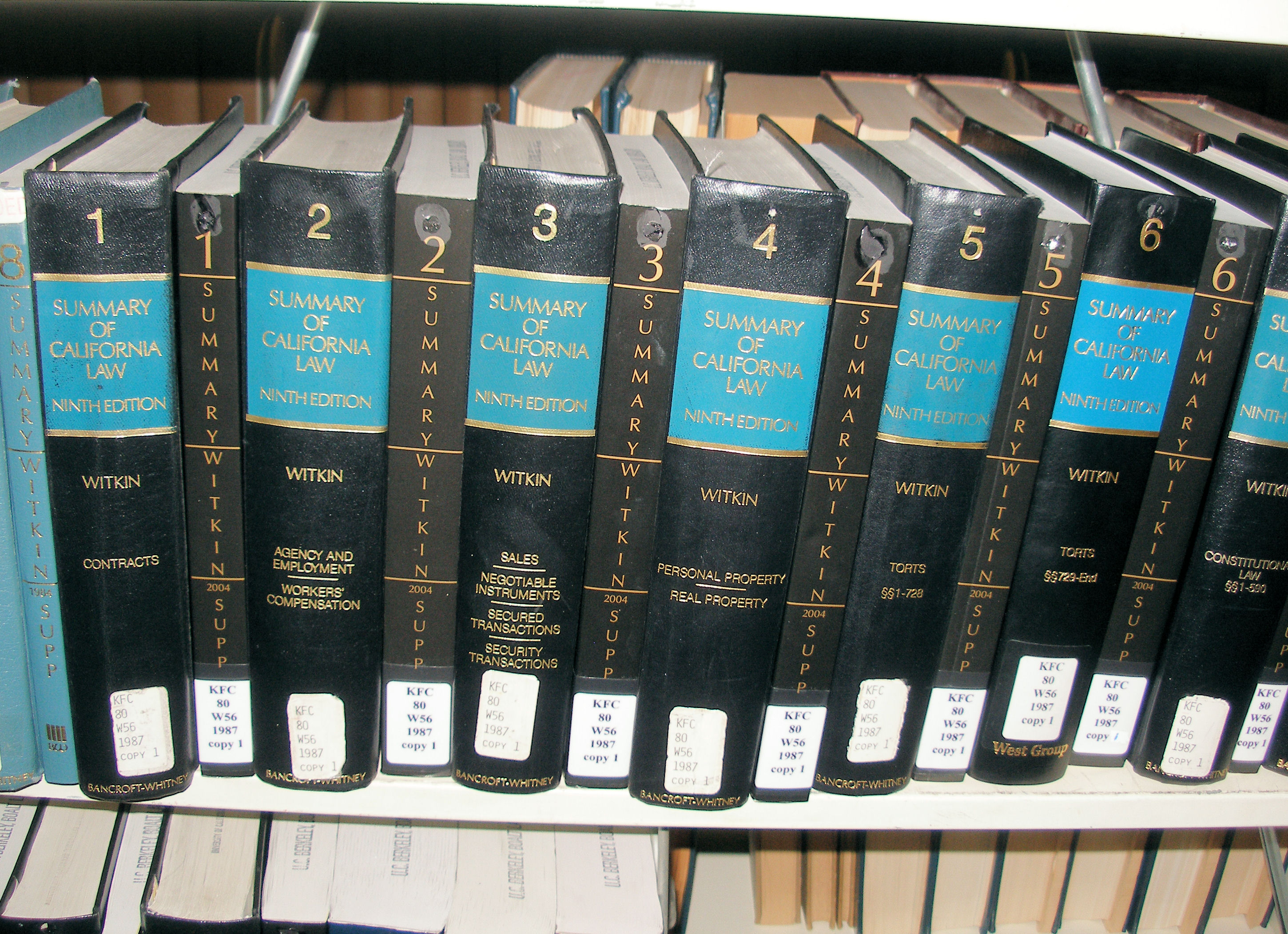 A few volumes of the ninth edition of Witkin's Summary of California Law, on a shelf at the law library of the UC Berkeley School of Law.